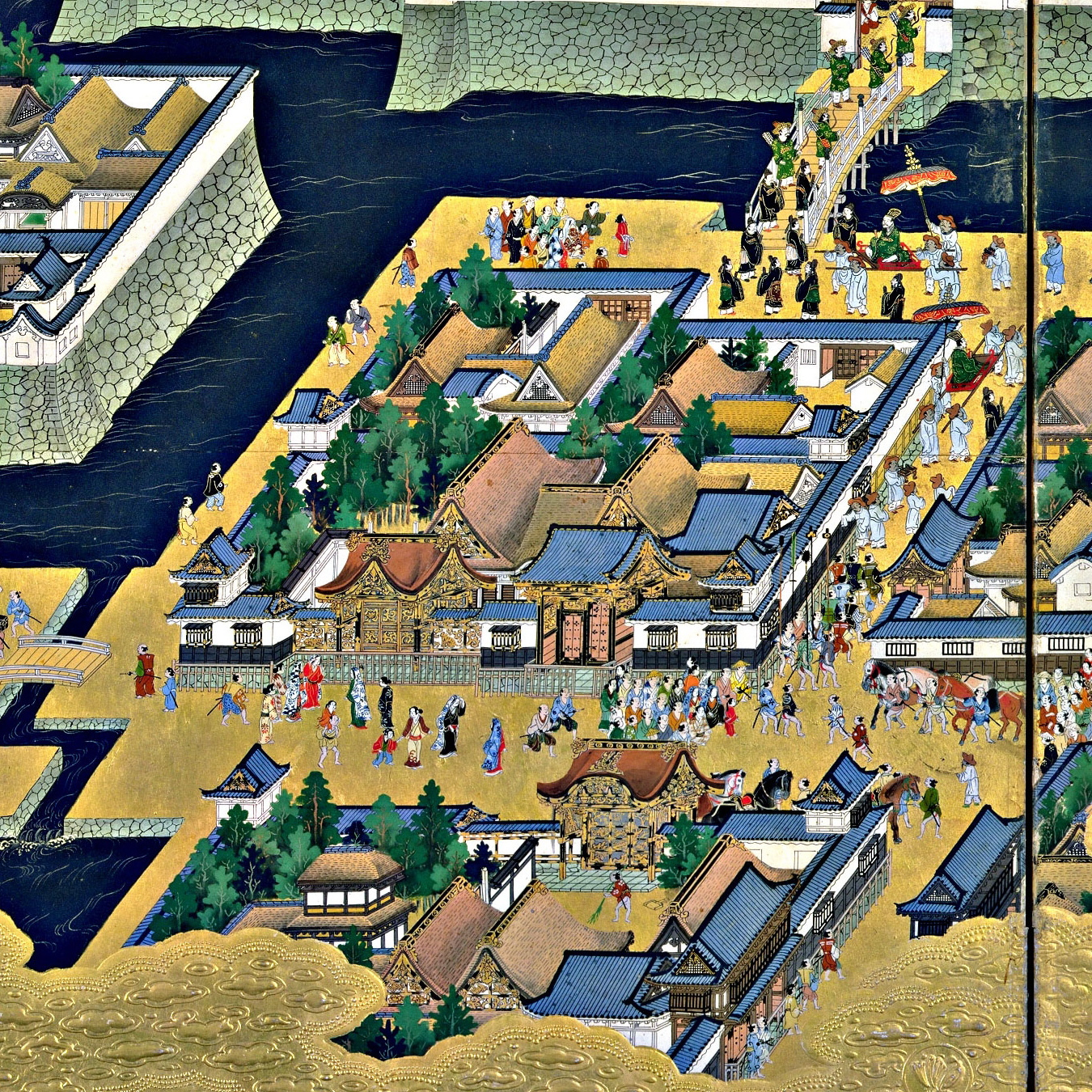 Part of Ōtemachi and the daimyo residences. The Ōtemon is on the most top part across the bridge. Lower middle of second panel, Left Screen. "View of Edo" (Edo zu) pair of six-panel folding screens (17th century).